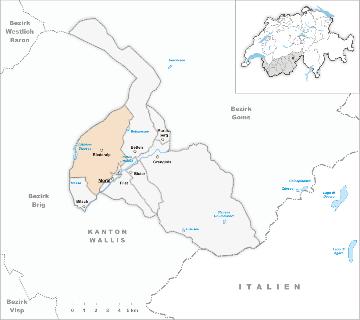 Municipality Riederalp